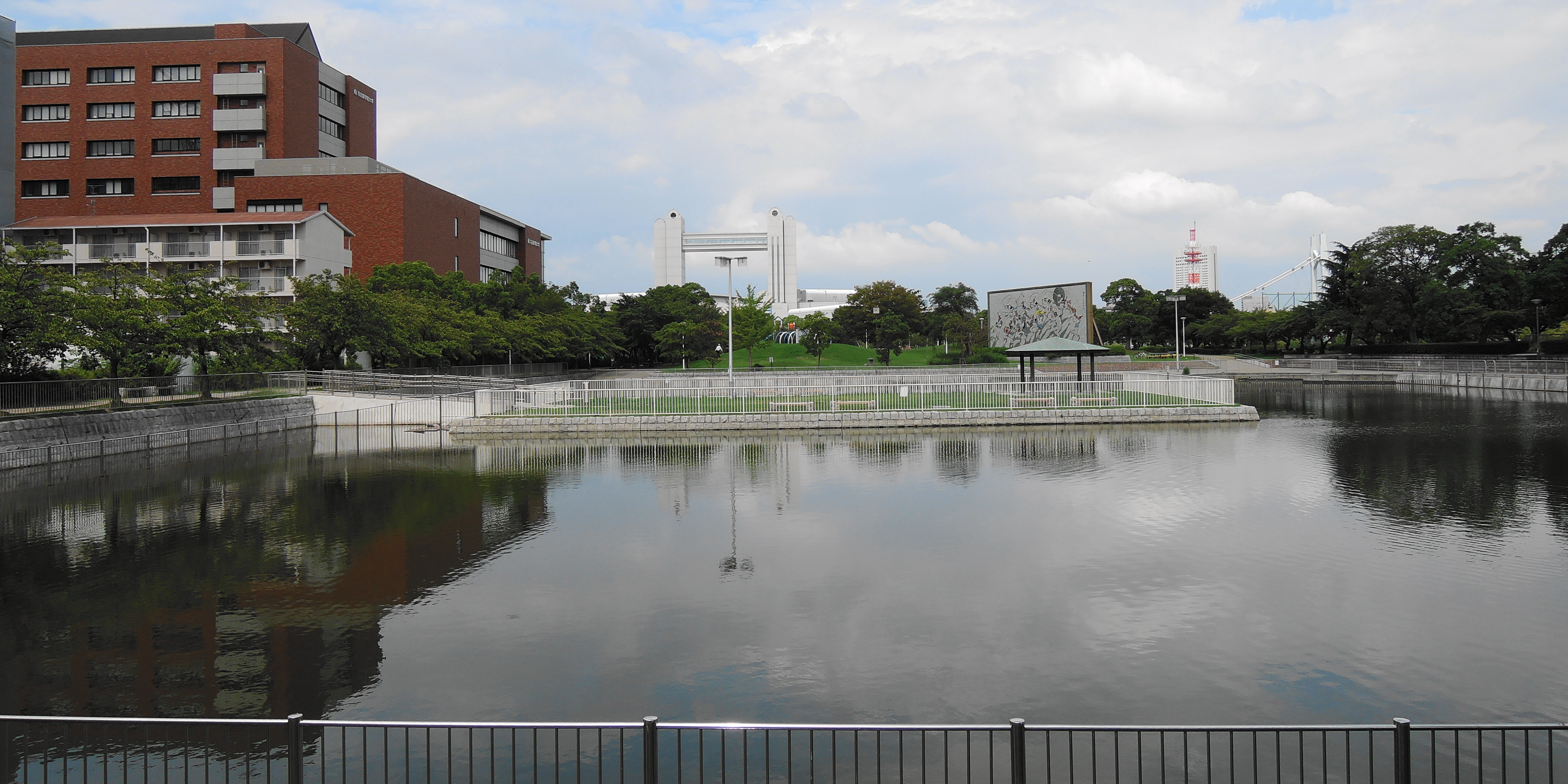 Shirotori Park,Aichi prefecture,Japan